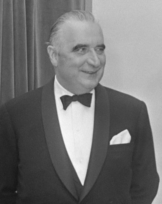 Koningin Juliana en prins Bernhard bieden de deelnemers aan de EEG-Topconferentie een galadiner aan op paleis Huis ten Bosch; v.l.n.r. koningin Juliana, president Pompidou van Frankrijk, mevrouw Claude Pompidou en prins Bernhard 1 december 1969